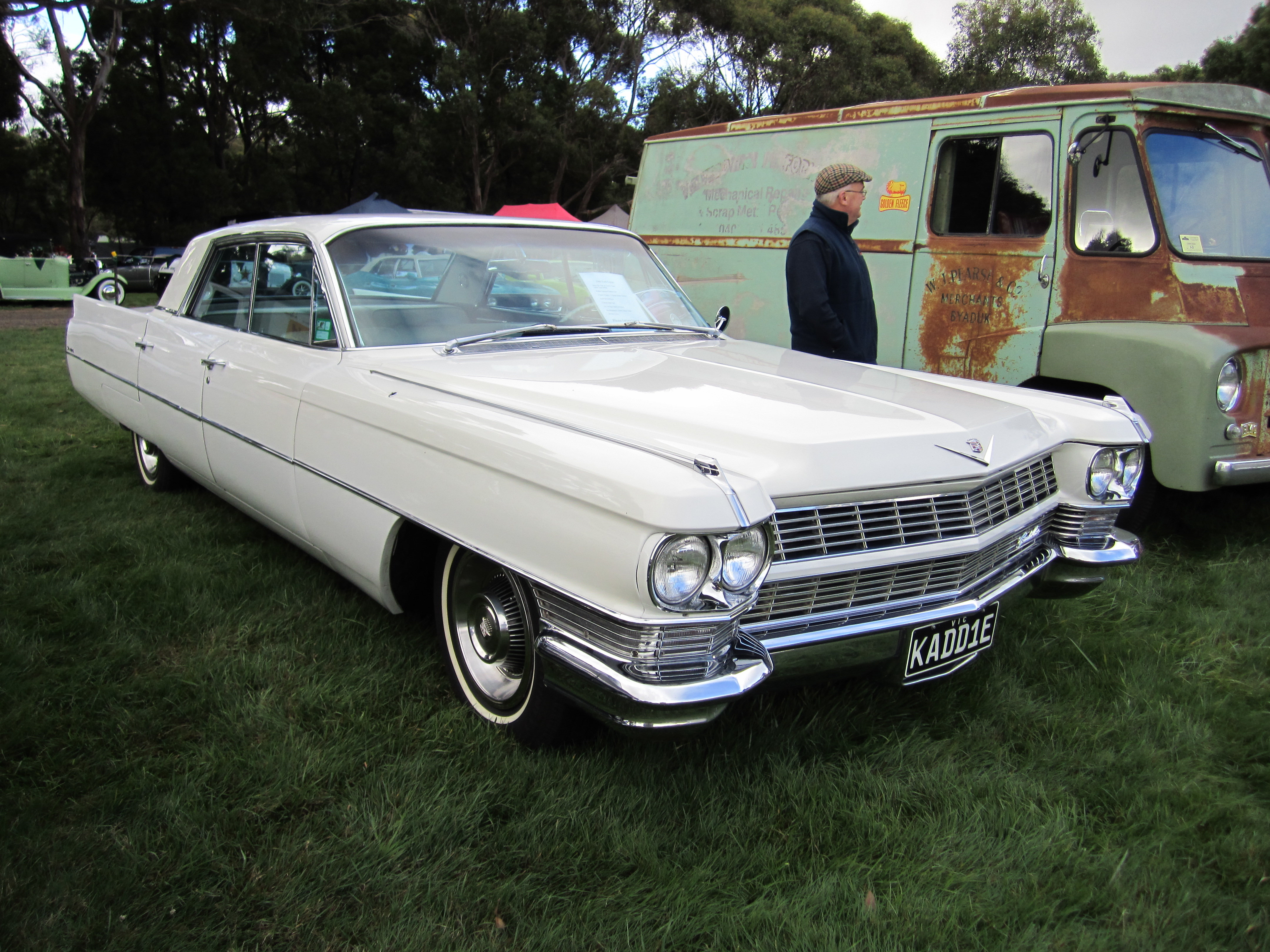 Available in Coupe, Sedan or Convertible. Engine; 390 or 429 V8s